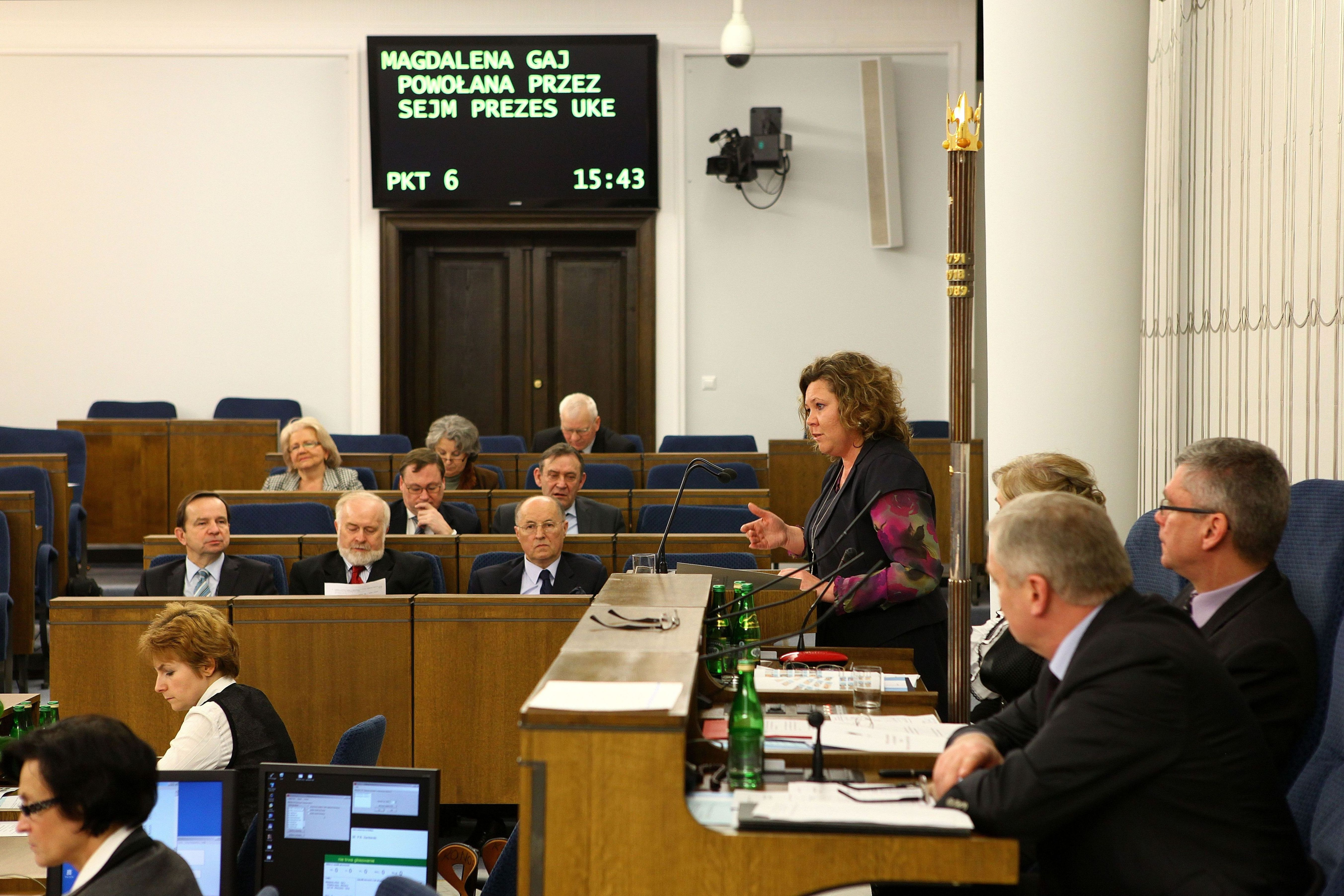 Magdalena Gaj speaking at 5th sitting of the Polish Senate